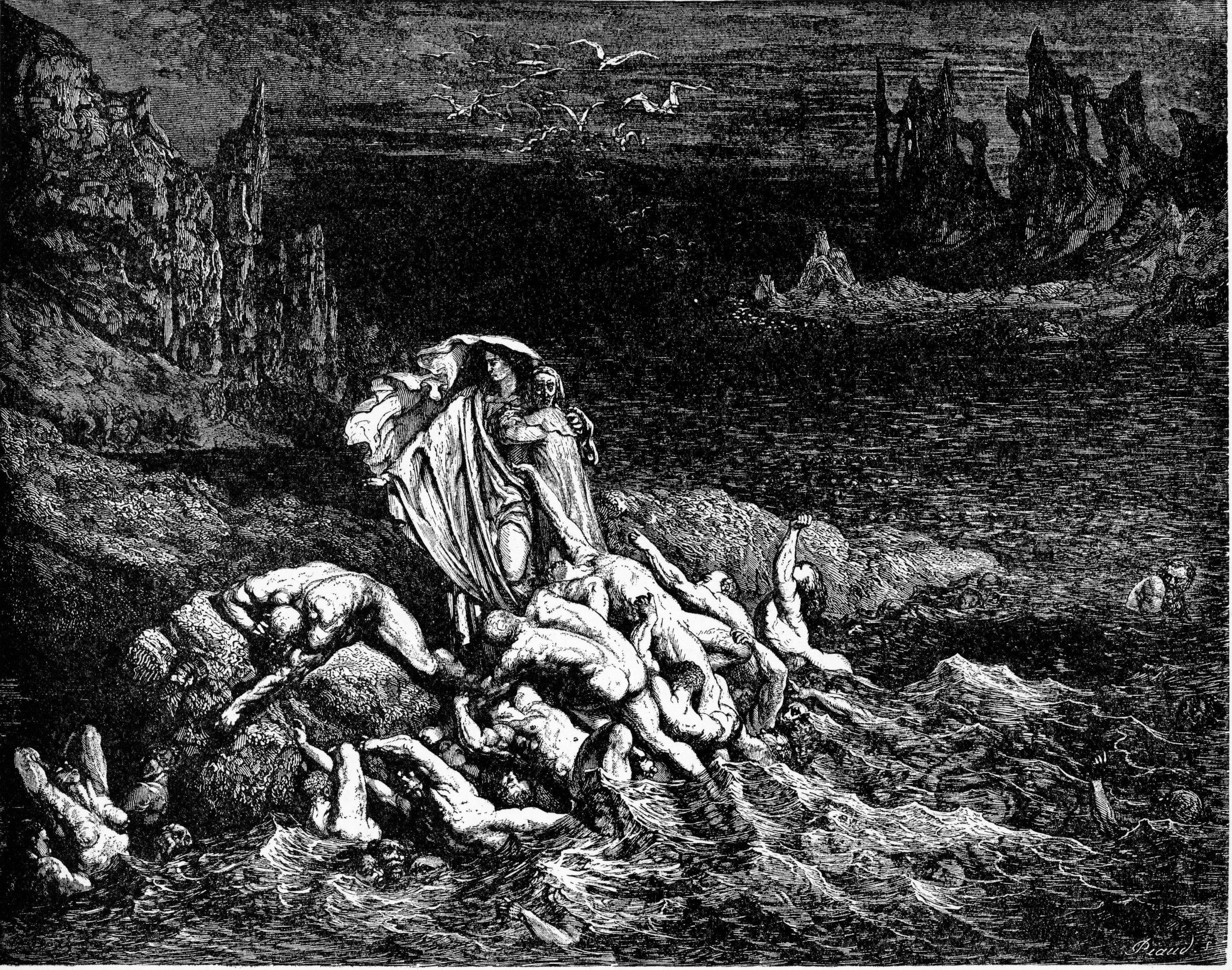 High resolution scan of engraving by Gustave Doré illustrating Canto VII of Divine Comedy, Inferno, by Dante Alighieri. Caption: Virgil shows Dante the Souls of the Wrathful